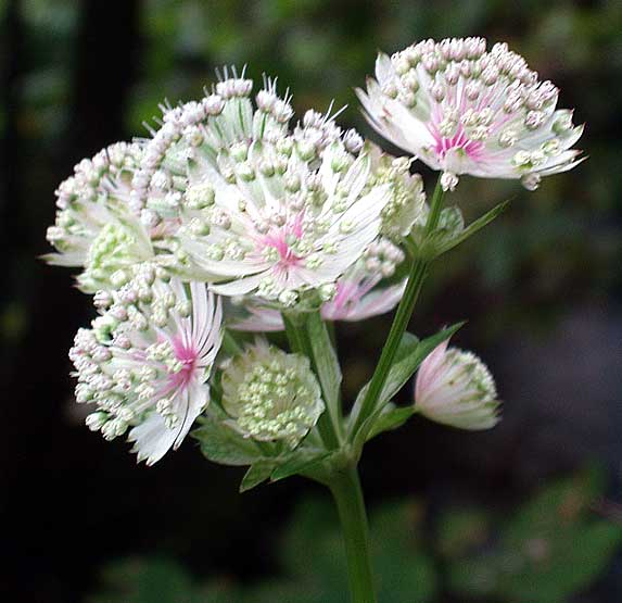 Great masterwort Astrantia major growing near Türnitz, Niederösterreich, Austria. Taken by Chris Dixon on 25th of September 2004.